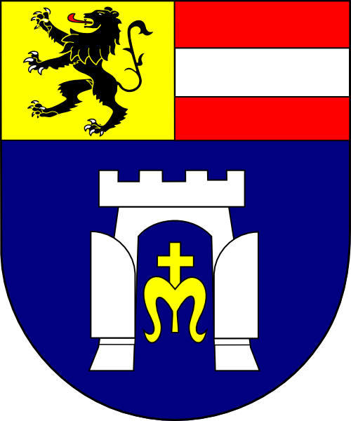 Coat of arms (shield only) of Georg Eder, archbishop of Salzburg, Austria (1988 - 2002).